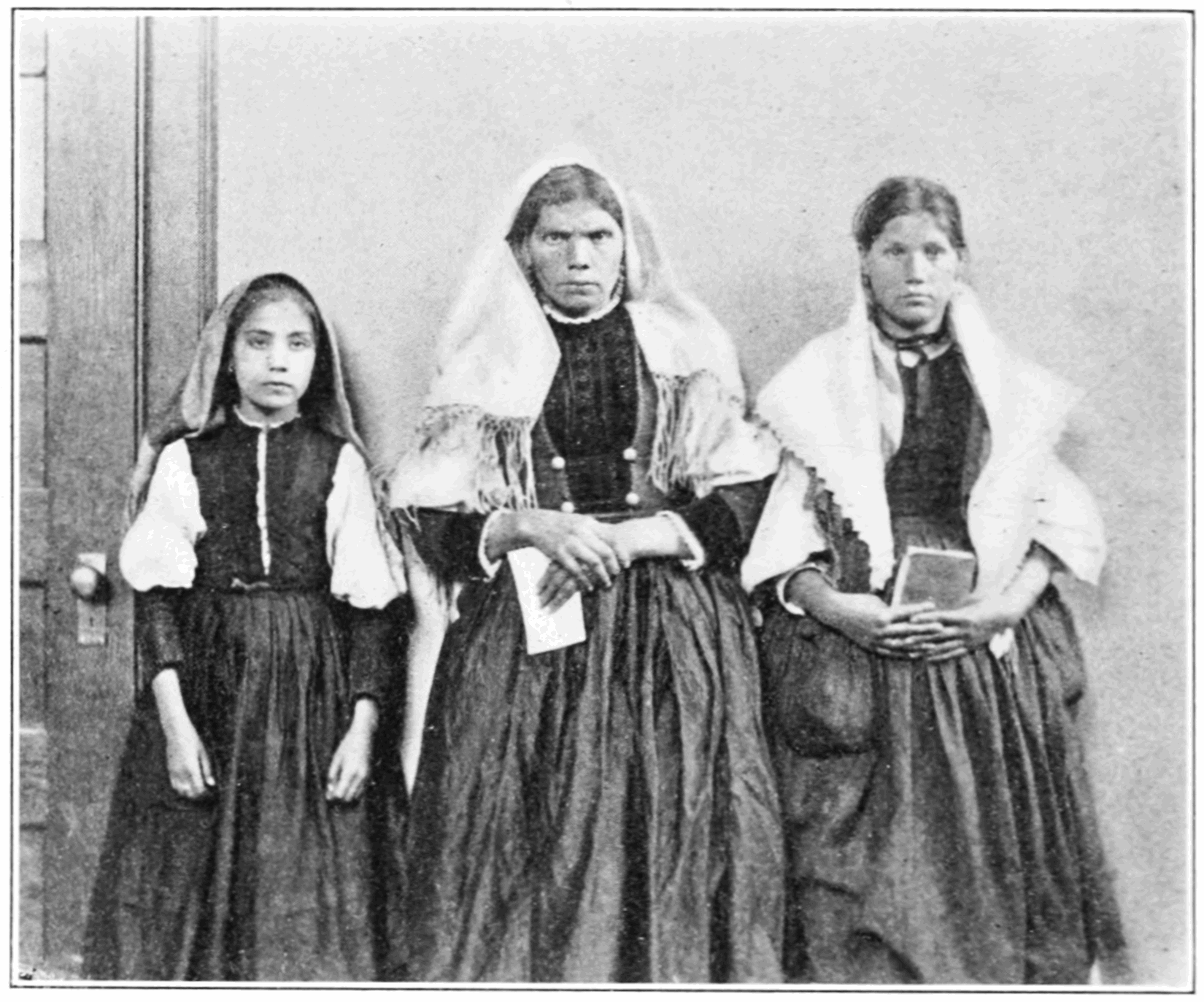 Three Italian immigrant women